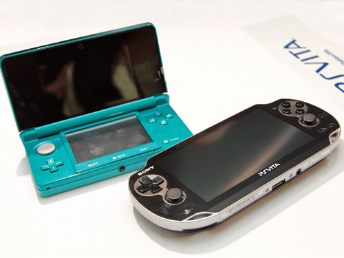 Current 8th Generation handhelds from Sony and Nintendo.